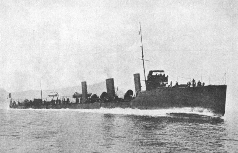 Photograph of the Italian destroyer Indomito Indomito was built 1910–1912, stricken in 1937; the lead ship of the Indomito class of six destroyers of the Regia Marina.